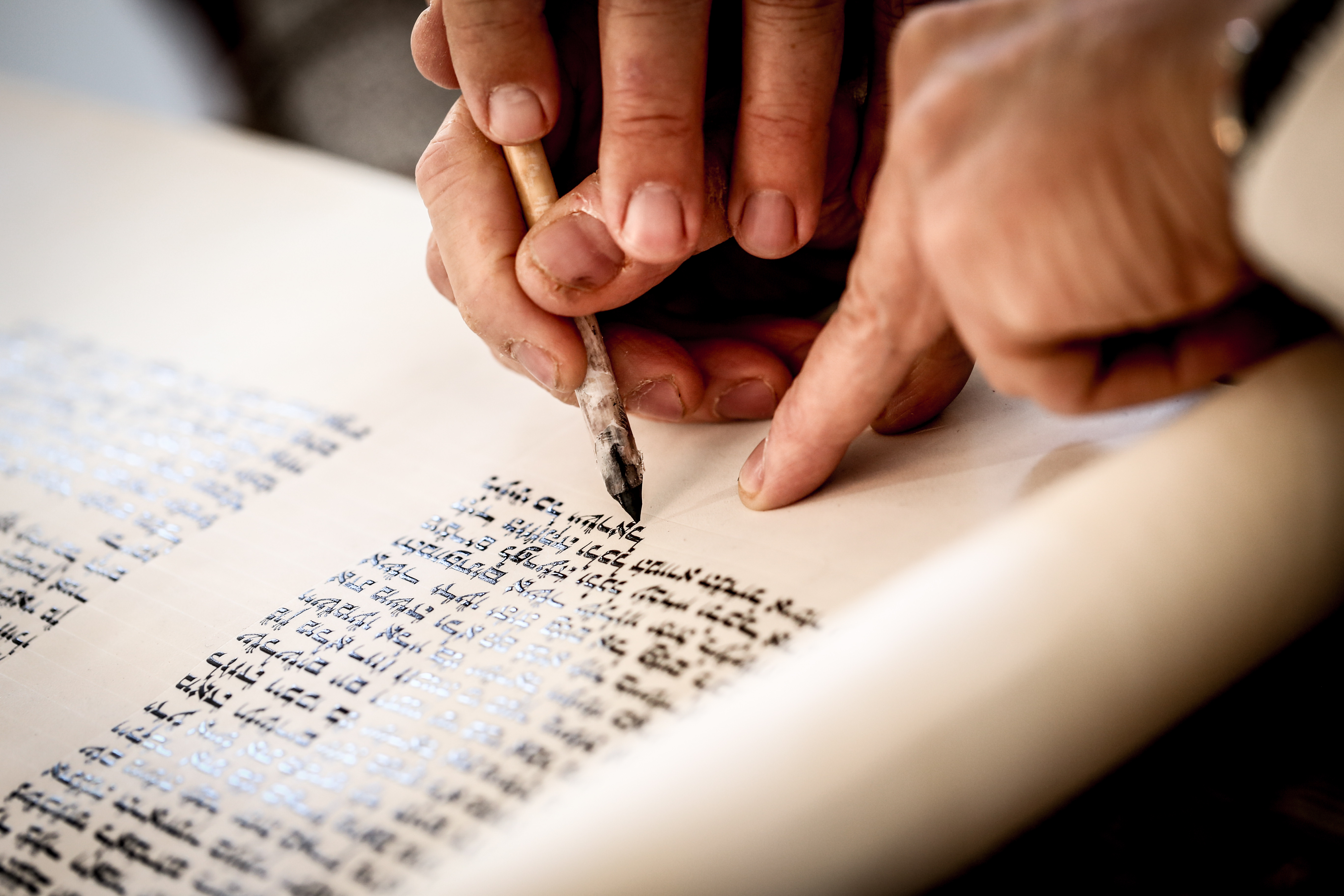 Sofer scribes